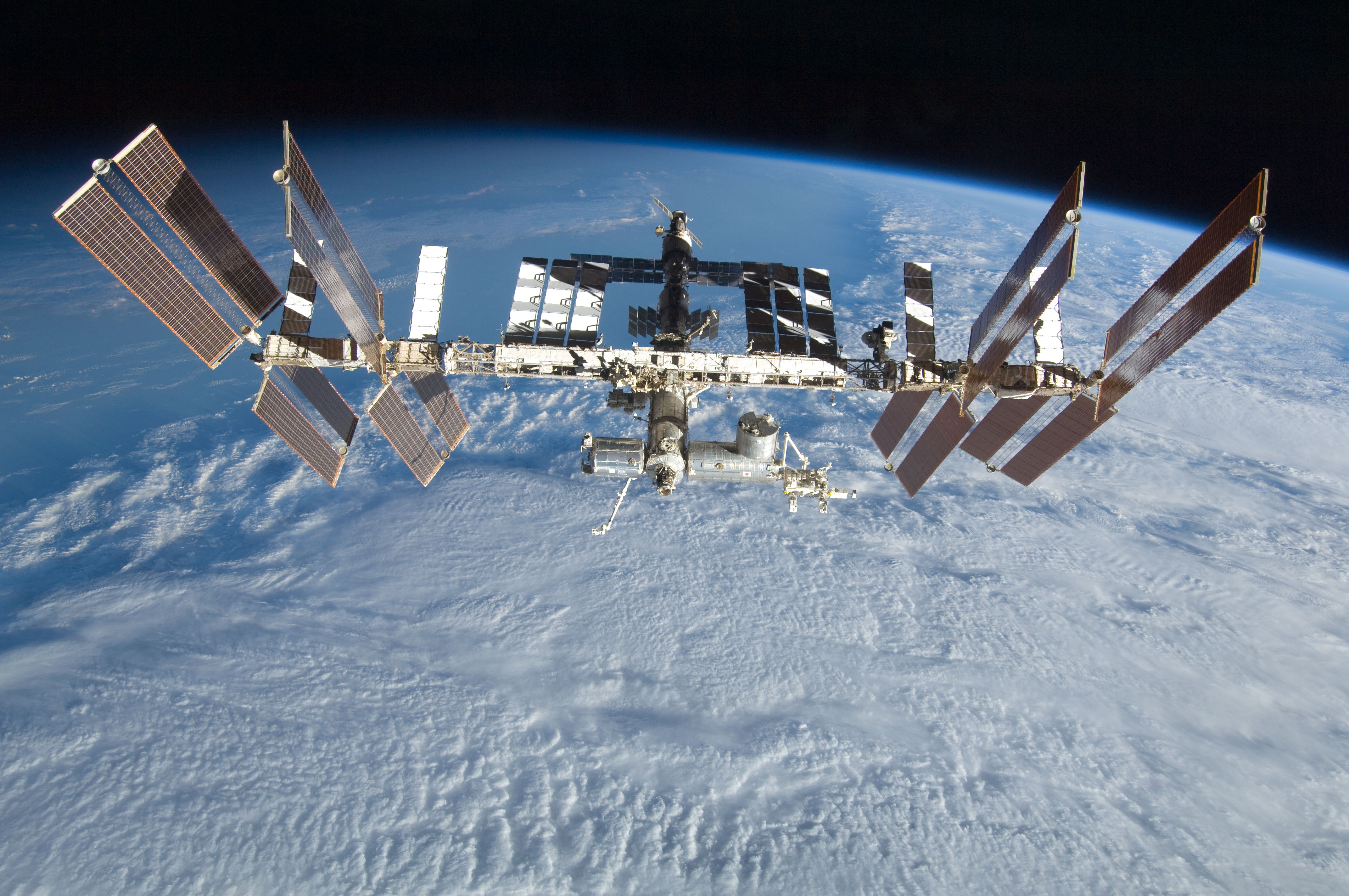 ISS post STS-128